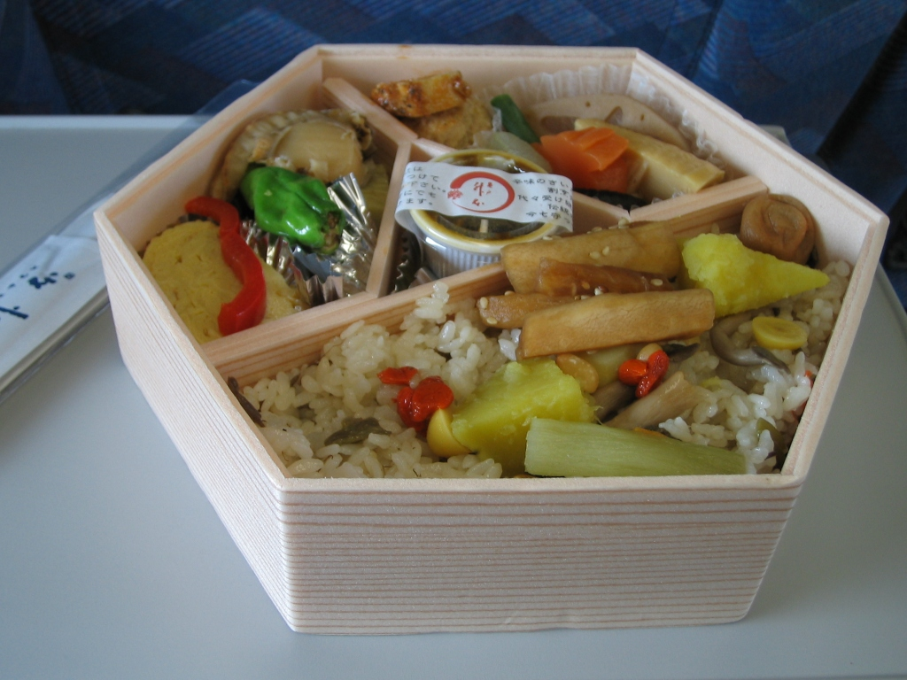 割烹升本「すみだ川」/Sumida-gawa Bento . Lunch on the basement food floor of Daimaru Tokyo.